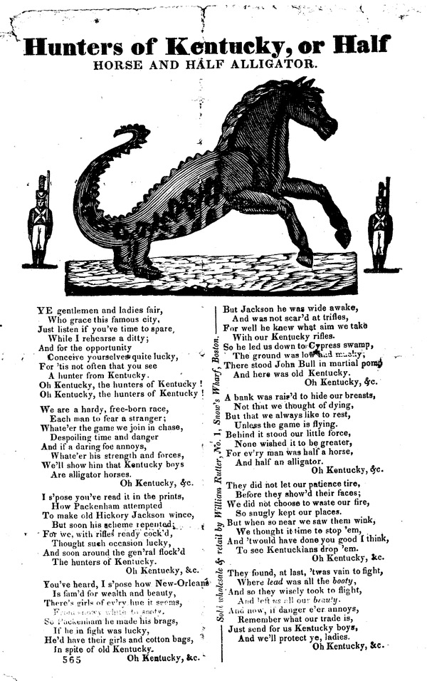 Song sheet of The Hunters of Kentucky.